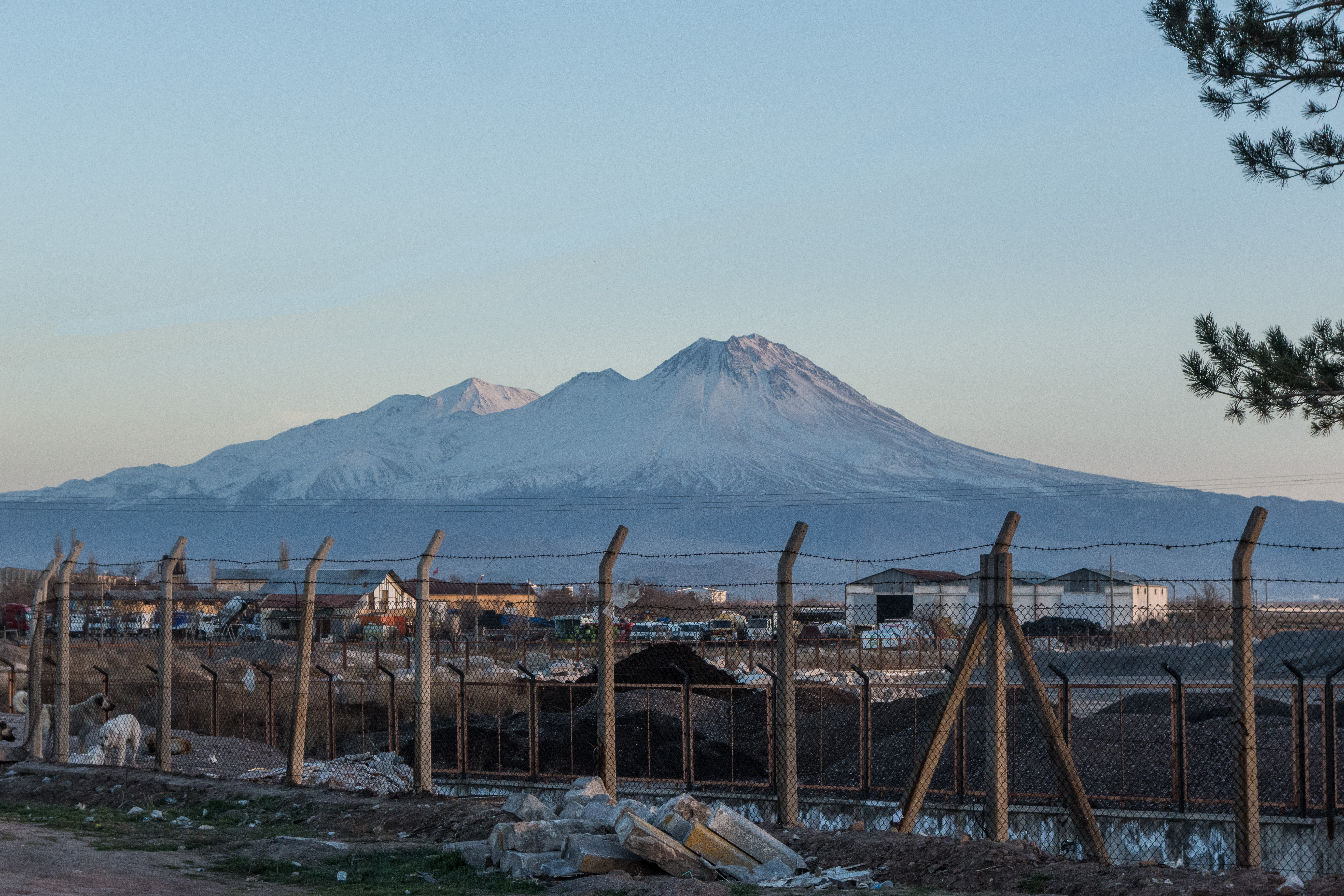 Hasan Dagi volcano near Aksaray in Turkey. The summit of the volcano is about 30 kilometres south-east of the camera location.